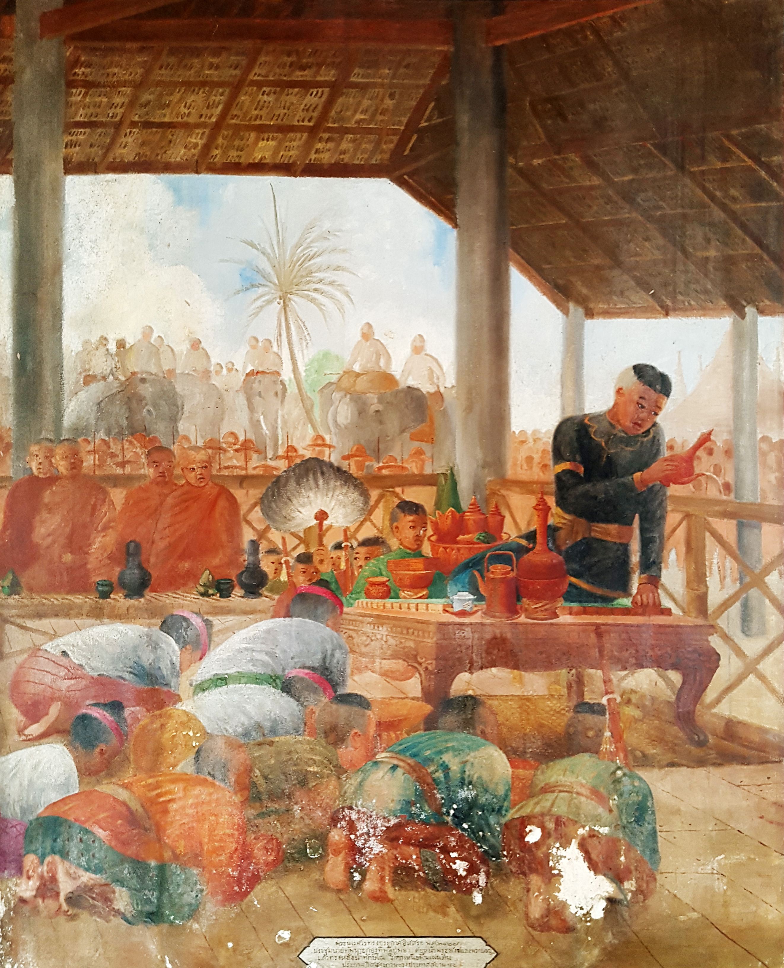 Painting: Naresuan the crown prince of Ayutthaya declared independence from Taungoo in 2127 Buddhist Era (falling between 1584/85 Common Era). Place: Mural painting inside the wihan of Wat Suwan Dararam, Phra Nakhon Si Ayutthaya Province, Thailand. Painter: Noble title: Phraya Anusat Chittrakon (พระยาอนุศาสนจิตรกร) Real name: Chan Chittrakon (จันทร จิตรกร) Year painted: 2474 Buddhist Era (falling between 1931/32 Common Era)